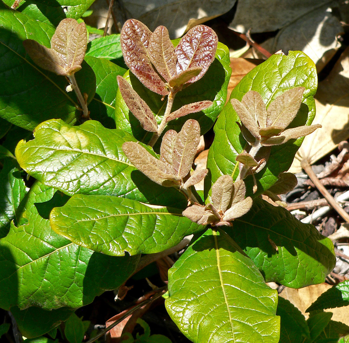 Quercus costaricensis at the University of California Botanical Garden, Berkeley, California